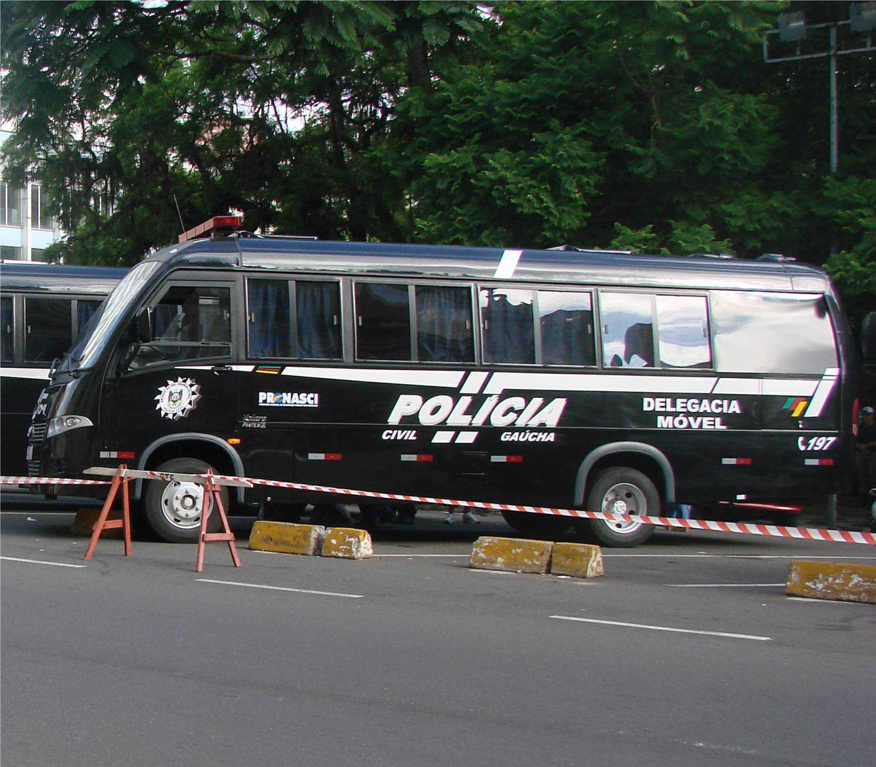 Police car of Rio Grande do Sul Civil Police - Brazil